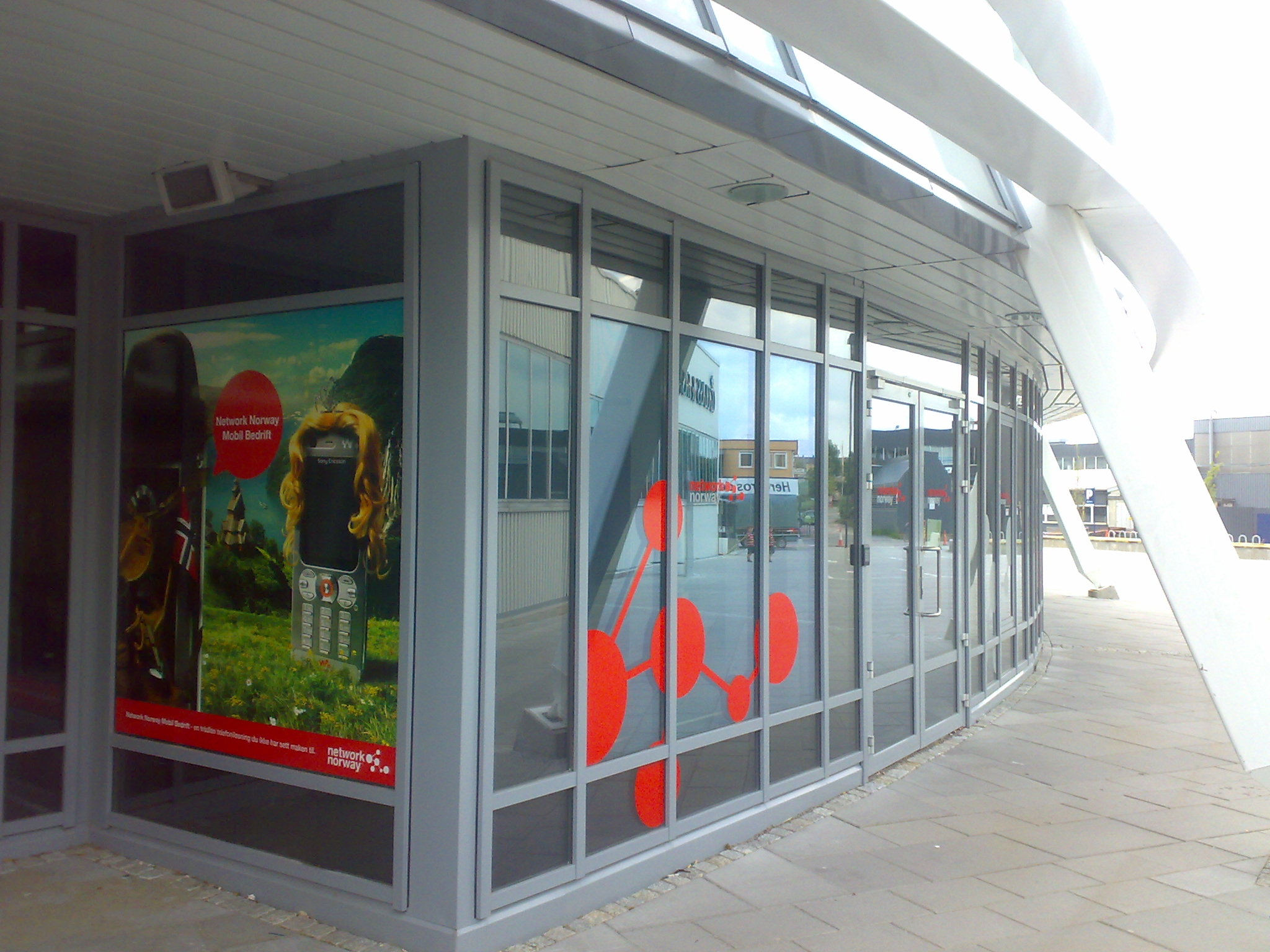 Network Norway outlet and offices, Sør Arena, Kristiansand, Norway